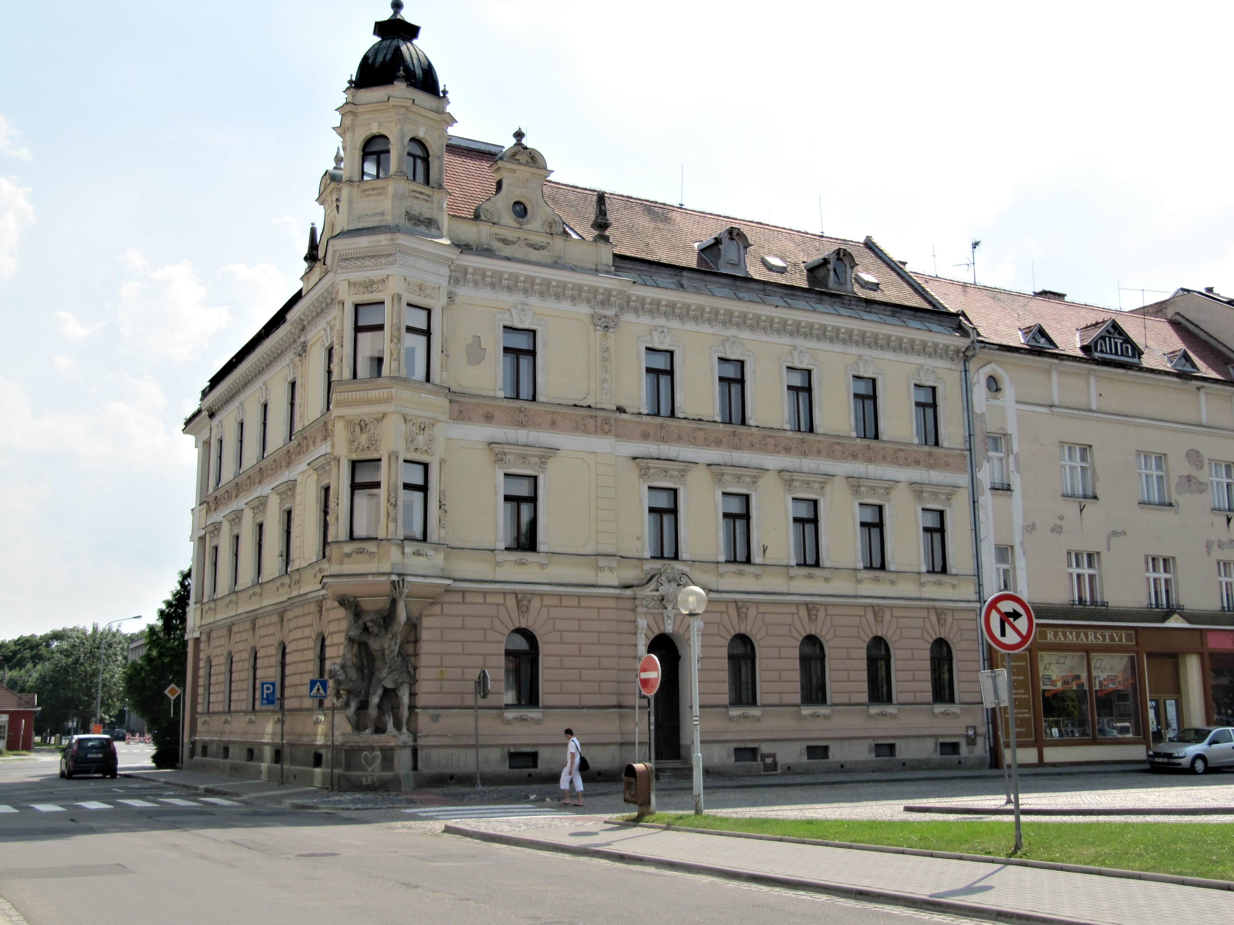 Uherské Hradiště, Czech Republic. Square Palackého náměstí. House by Josef Schaniak from 1900. Corner bay with atlants.